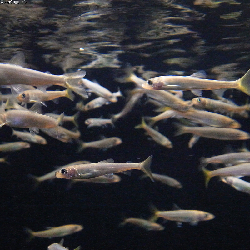 (Young) Ayu, Sweetfish, Plecoglossus altivelis altivelis .